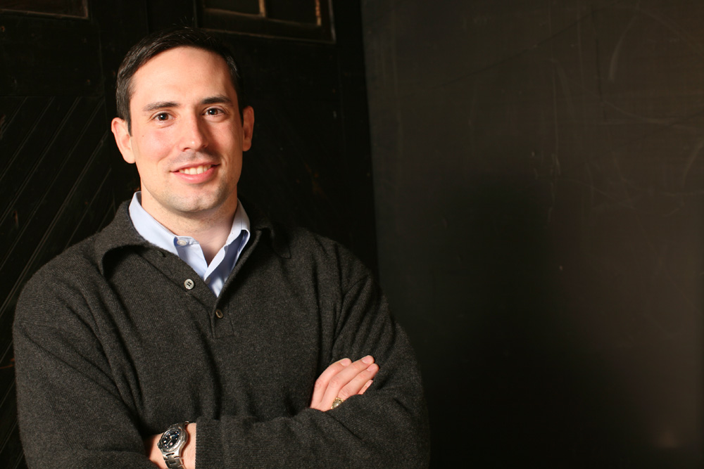 Author photo of Craig Mullaney